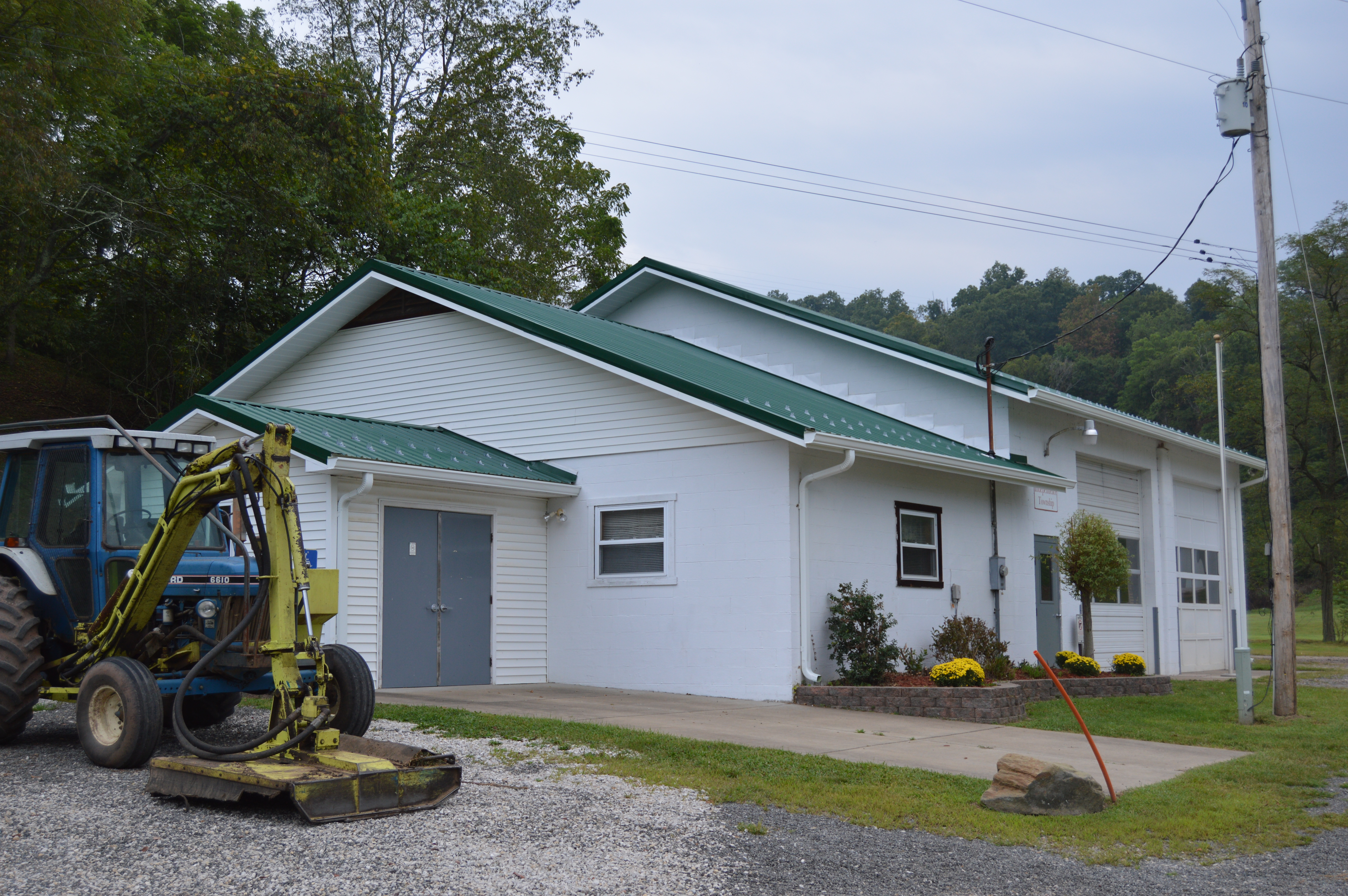 Front of the Independence Township government building, located on Upper Archer's Fork Road in Archer's Fork, Ohio, United States.